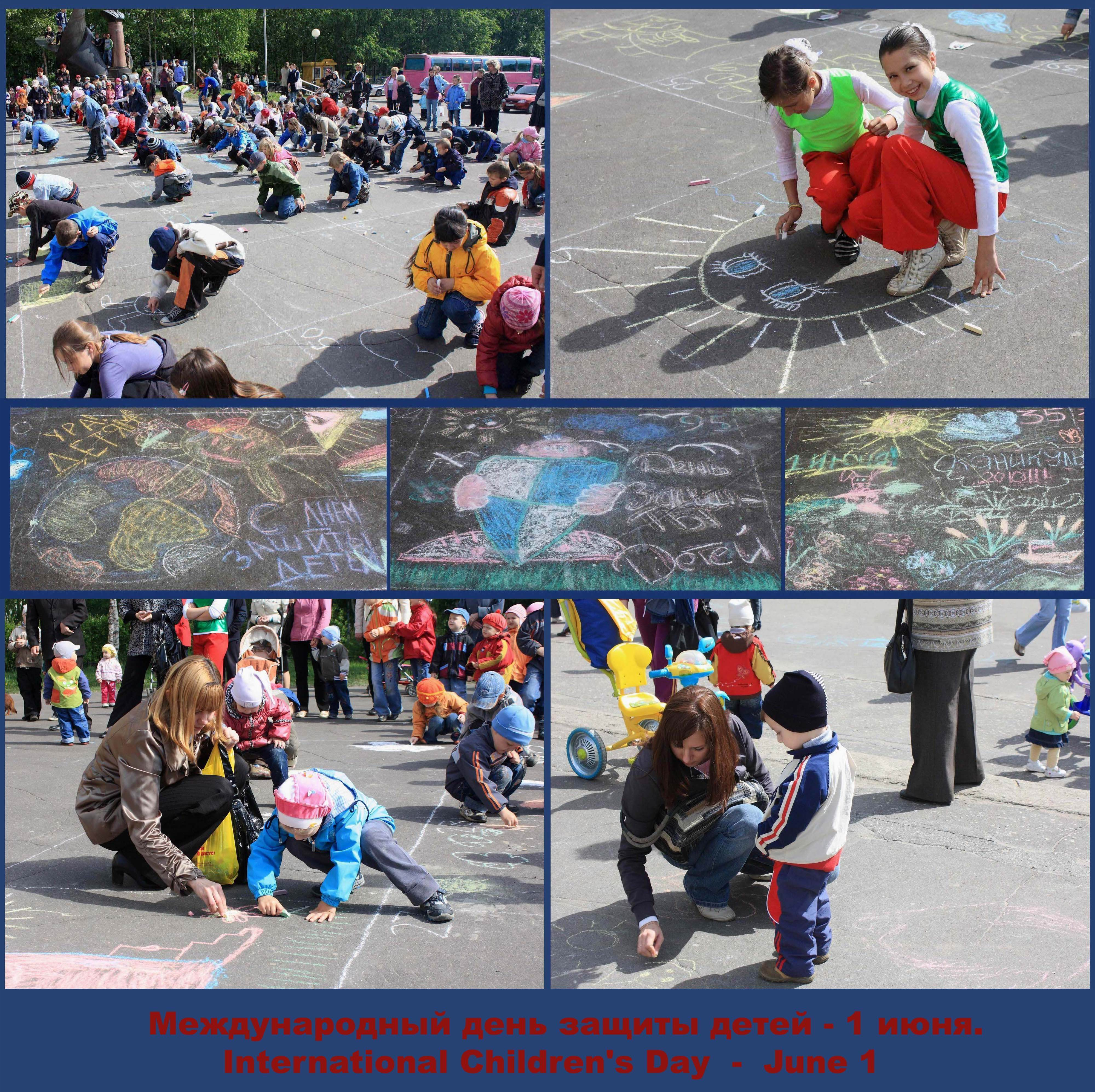 International Children's Day (June 1) in Severodvinsk (Russia).